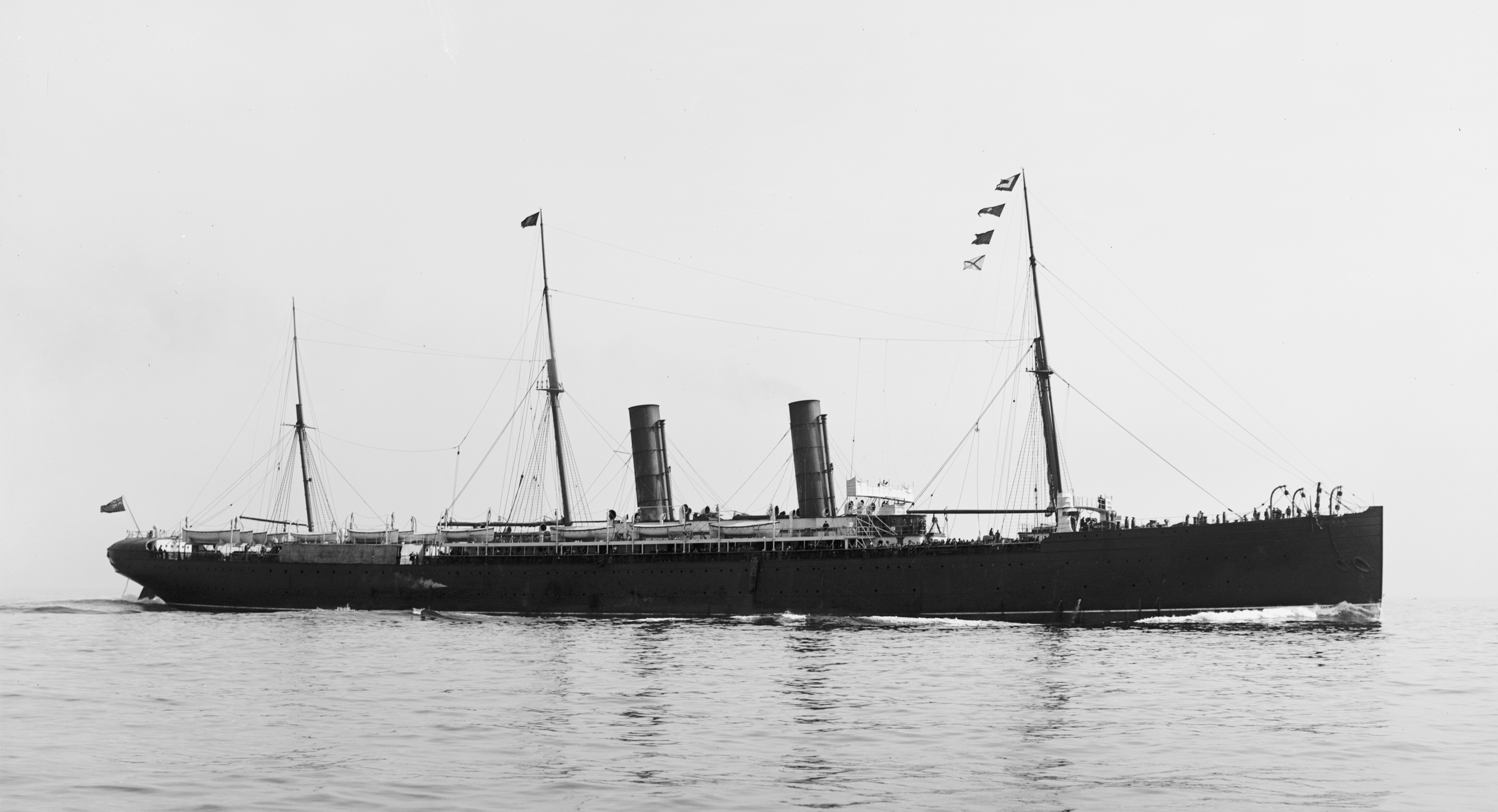 SS Servia